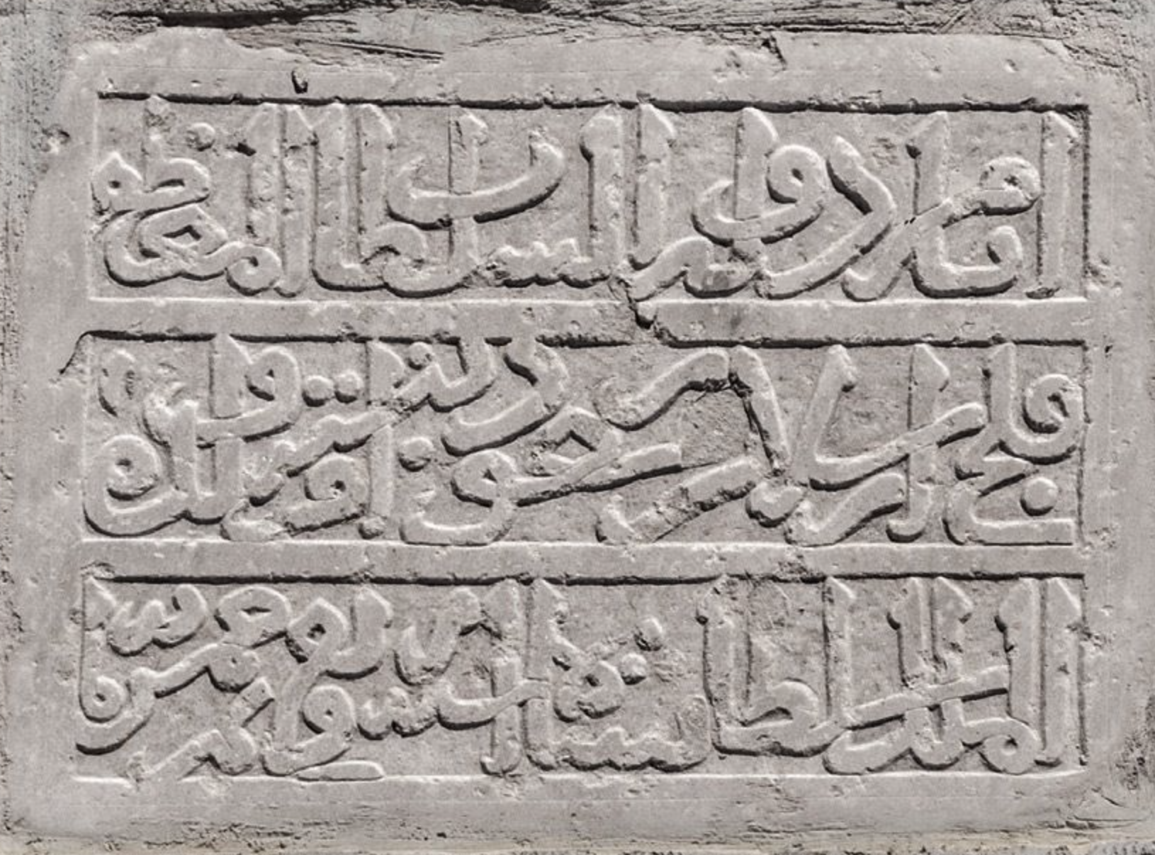 Öresin Han, Inscription of the founder